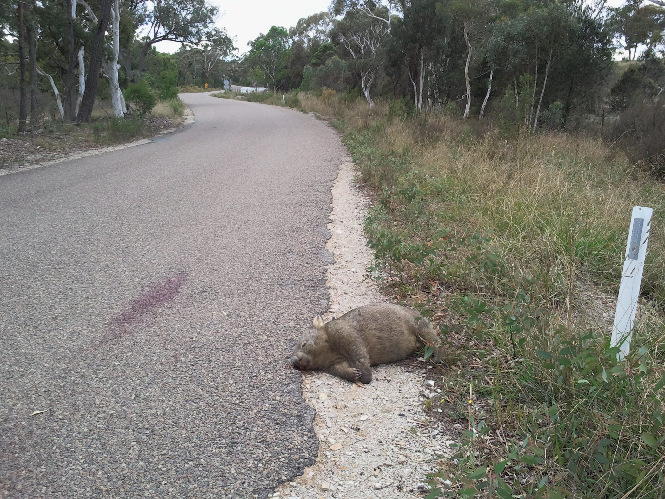 Wombat - road-kill, Nerriga, New South Walkes, Australia